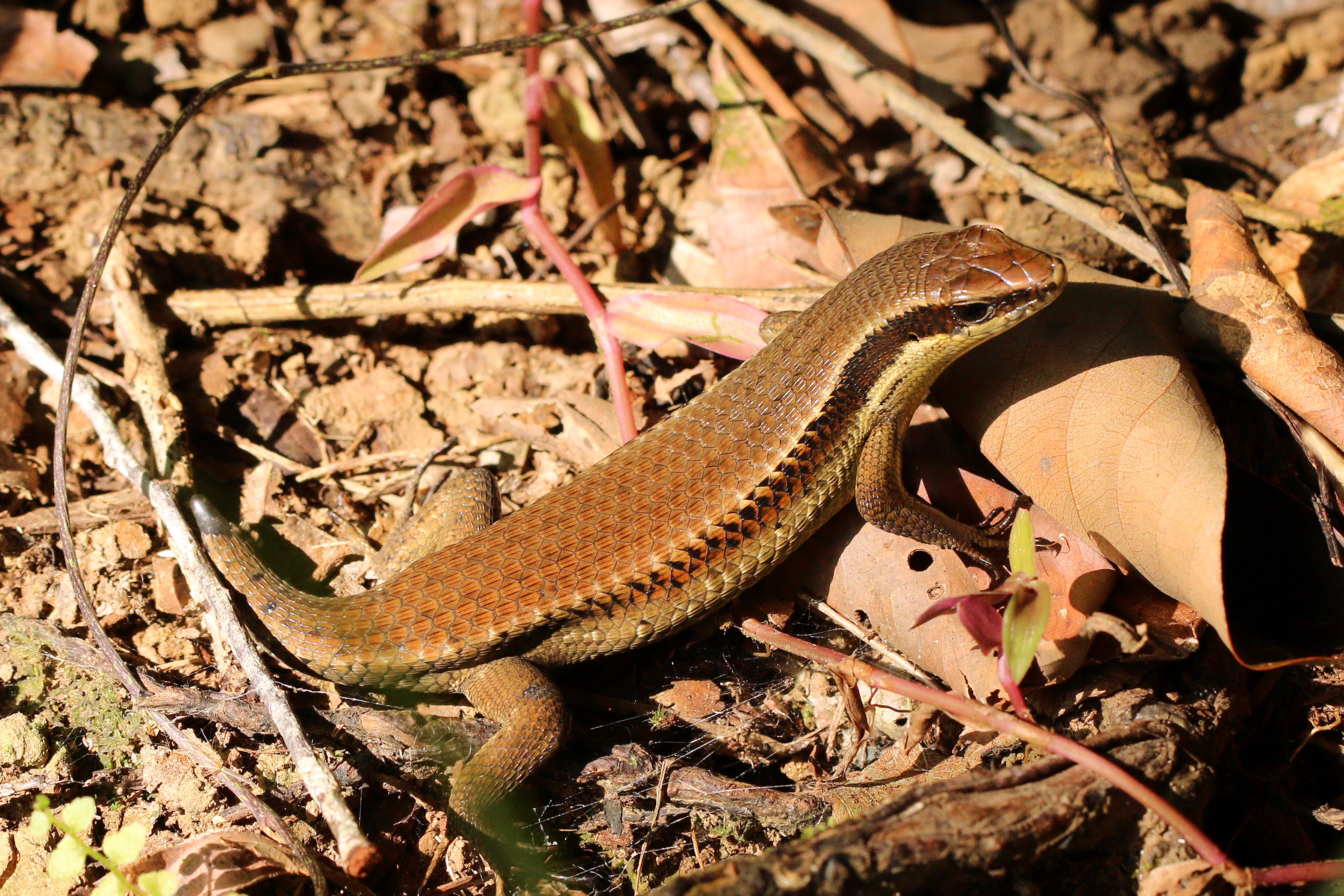 Common sun skink (Eutropis multifasciata), 'Danum Valley Conservation Area, Sabah, Borneo, Malaysia